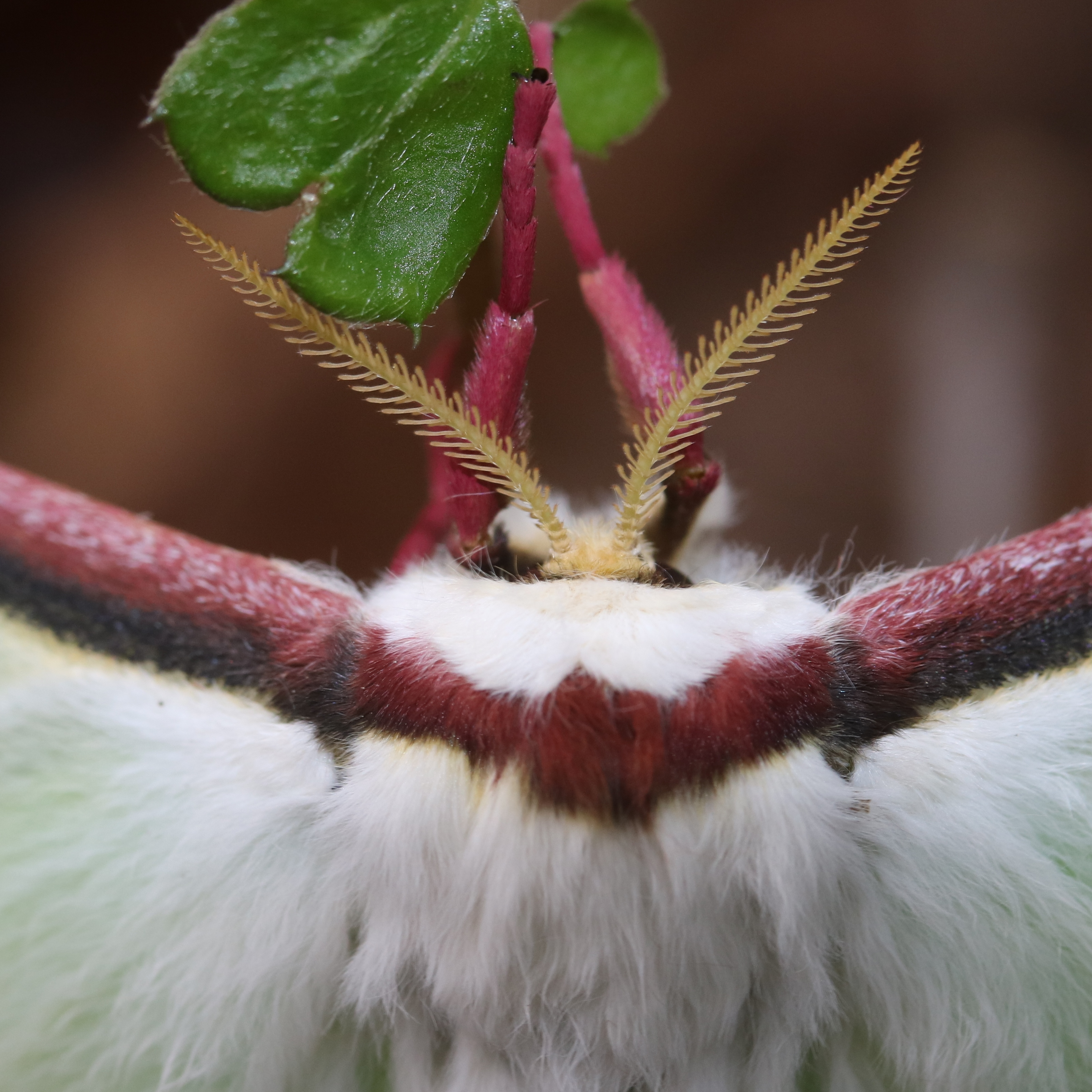 Actias aliena (Actias artemis) in Mount Ozugonge, Ibigawa, Gifu Prefecture, Japan.